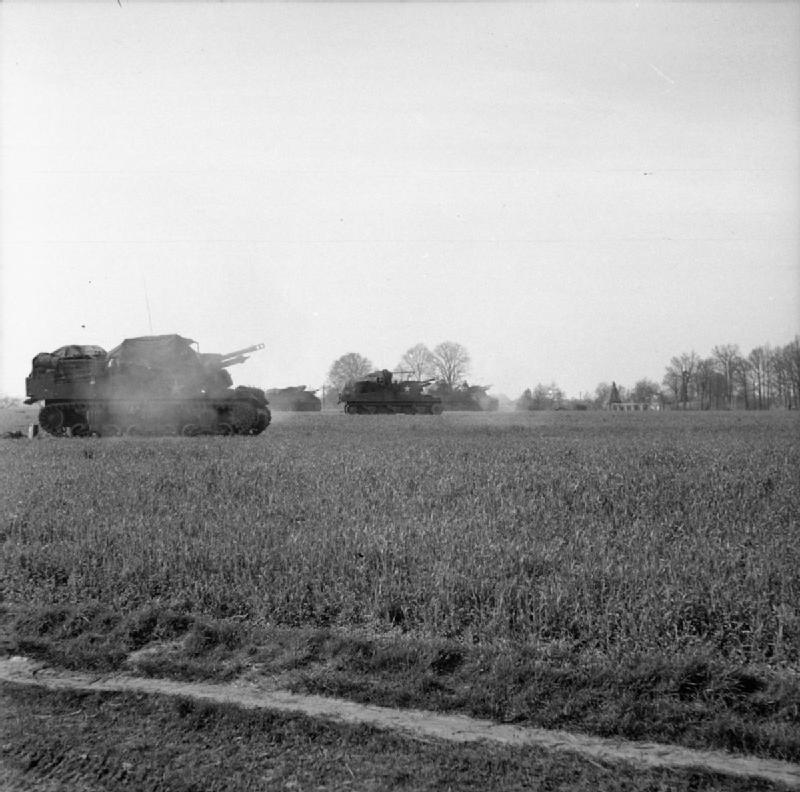 The British Army in North-west Europe 1944-45 Sexton 25-pdr self-propelled guns of 86th Field Regiment (Hertfordshire Yeomanry) firing against enemy positions, 12 April 1945.